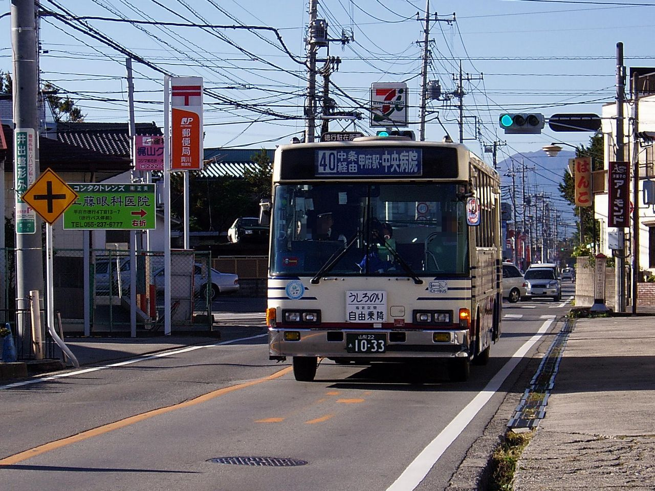 Yamanashi Kotsu Kanko Bus This road is called "Haikidou" in japan. Isuzu P-LR312J 2007.11.13 Photo by Cassiopeia_sweet.